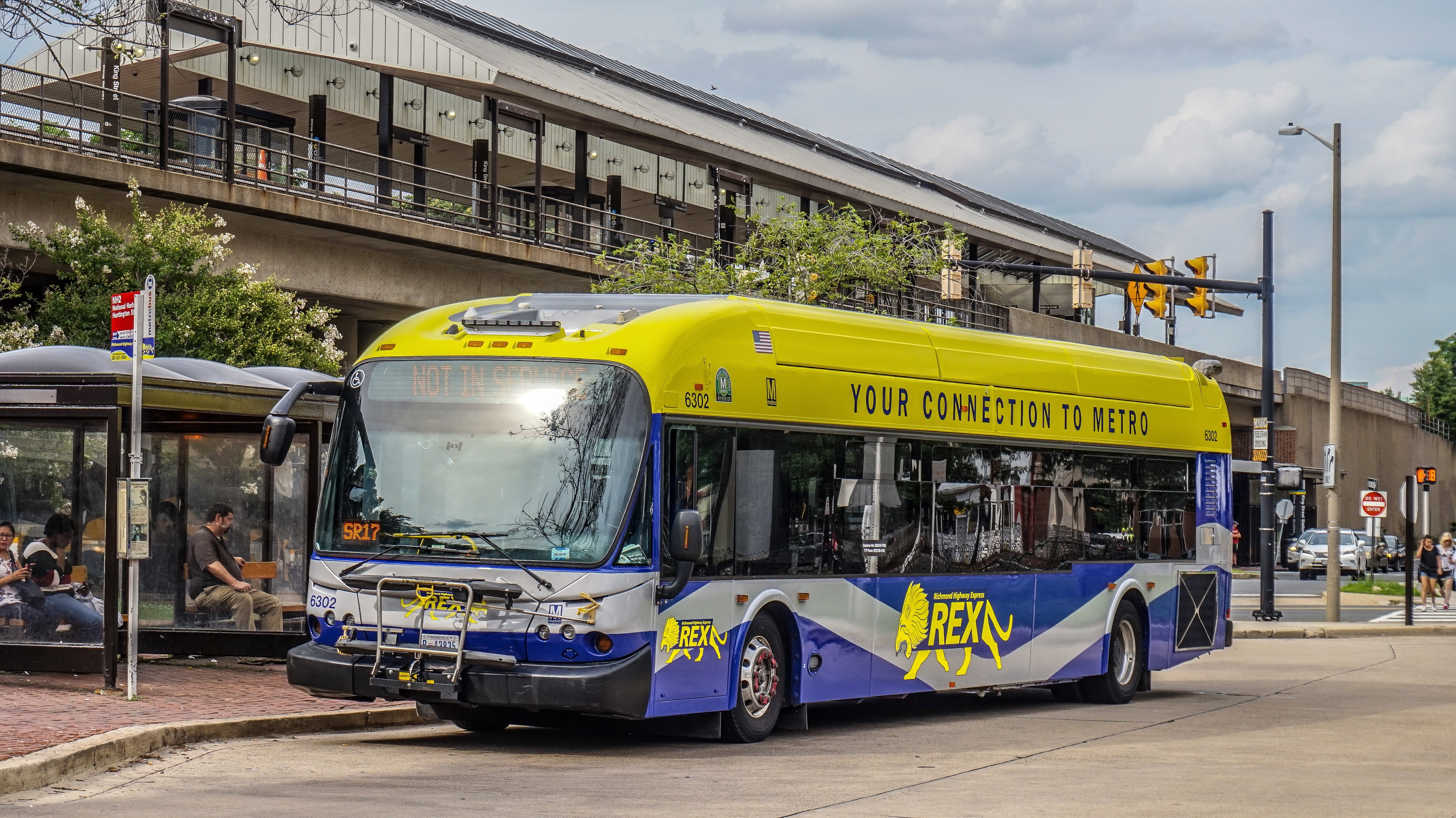 Here is one of 12 of the 2008 New Flyer DE40LFA in the REX Scheme